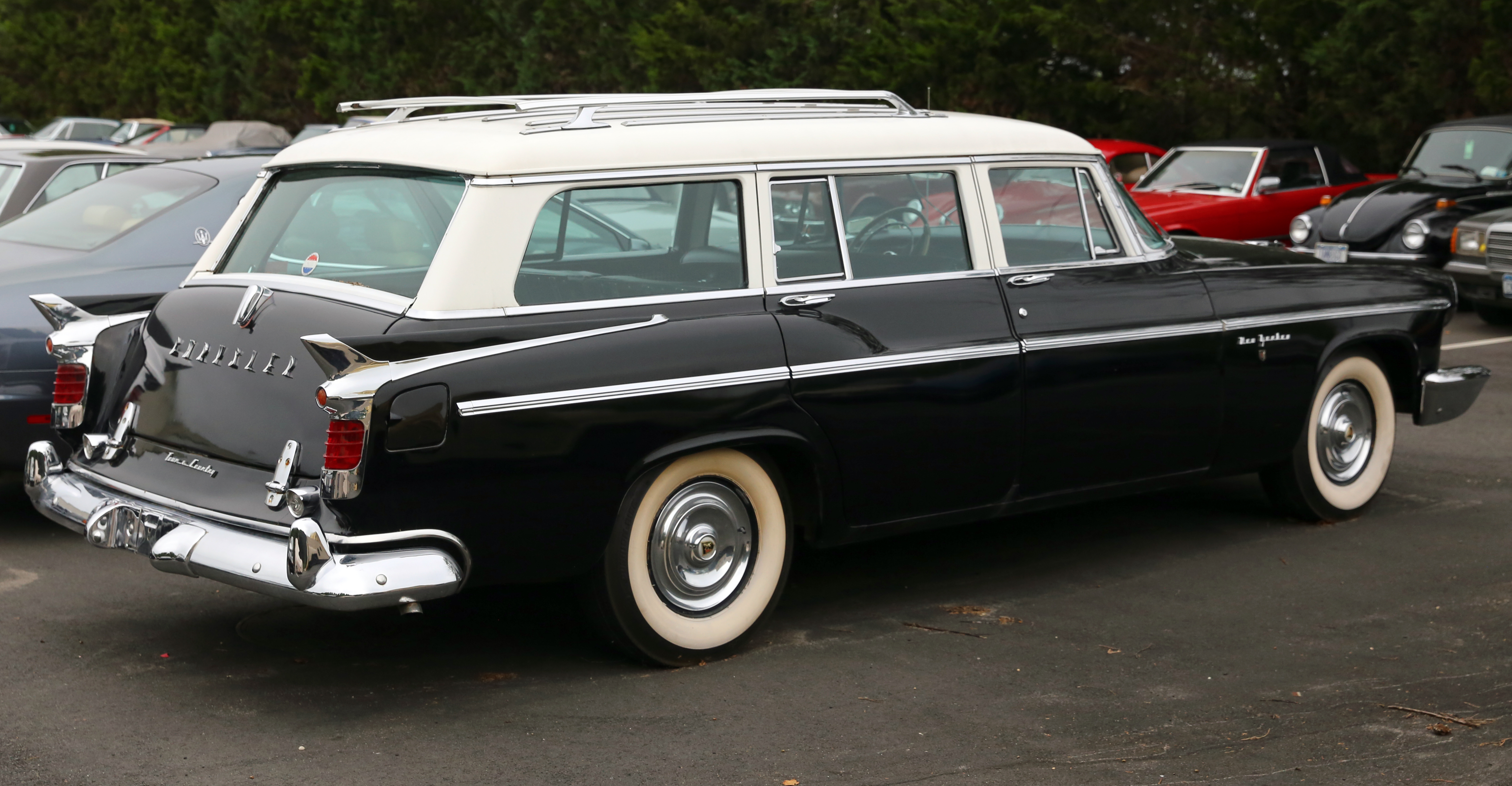 A 1956 Chrysler New Yorker Town & Country station wagon in a lovely white over black two-tone paintjob. Fitted with a 280hp 354ci V8 engine, a mere 1070 New Yorker T&Cs were built in 1956. An early car, built in Chrysler's Detroit plant.